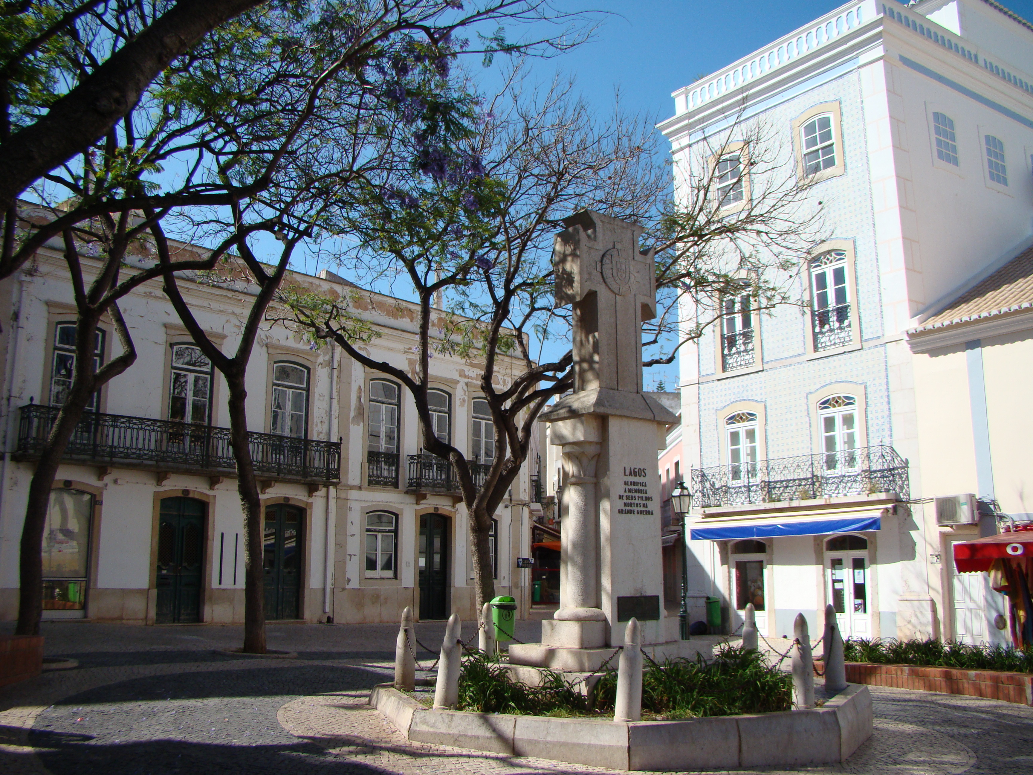 Lagos' city centre